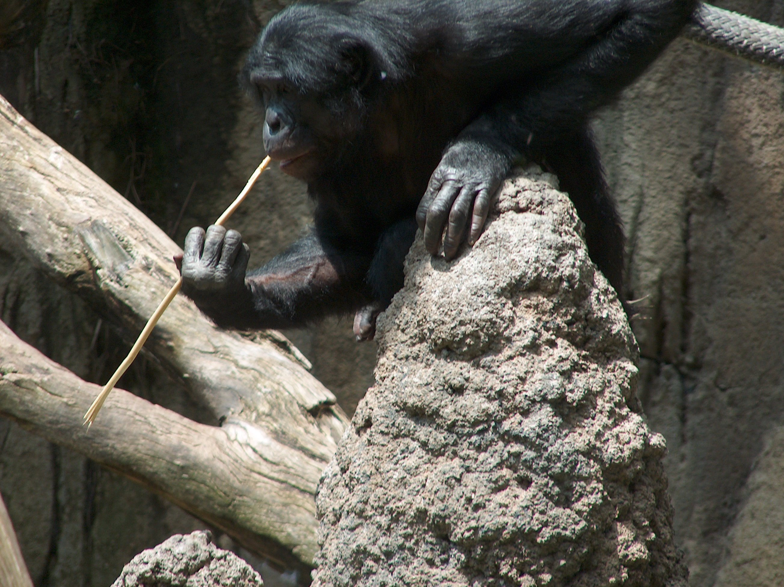 A Bonobo at the San Diego Zoo "fishing" for termites. The photo was taken through glass, so if anyone wants to photoshop it to remove artifacts of the glass, please be my guest. Please attribute photo to Mike Richey.